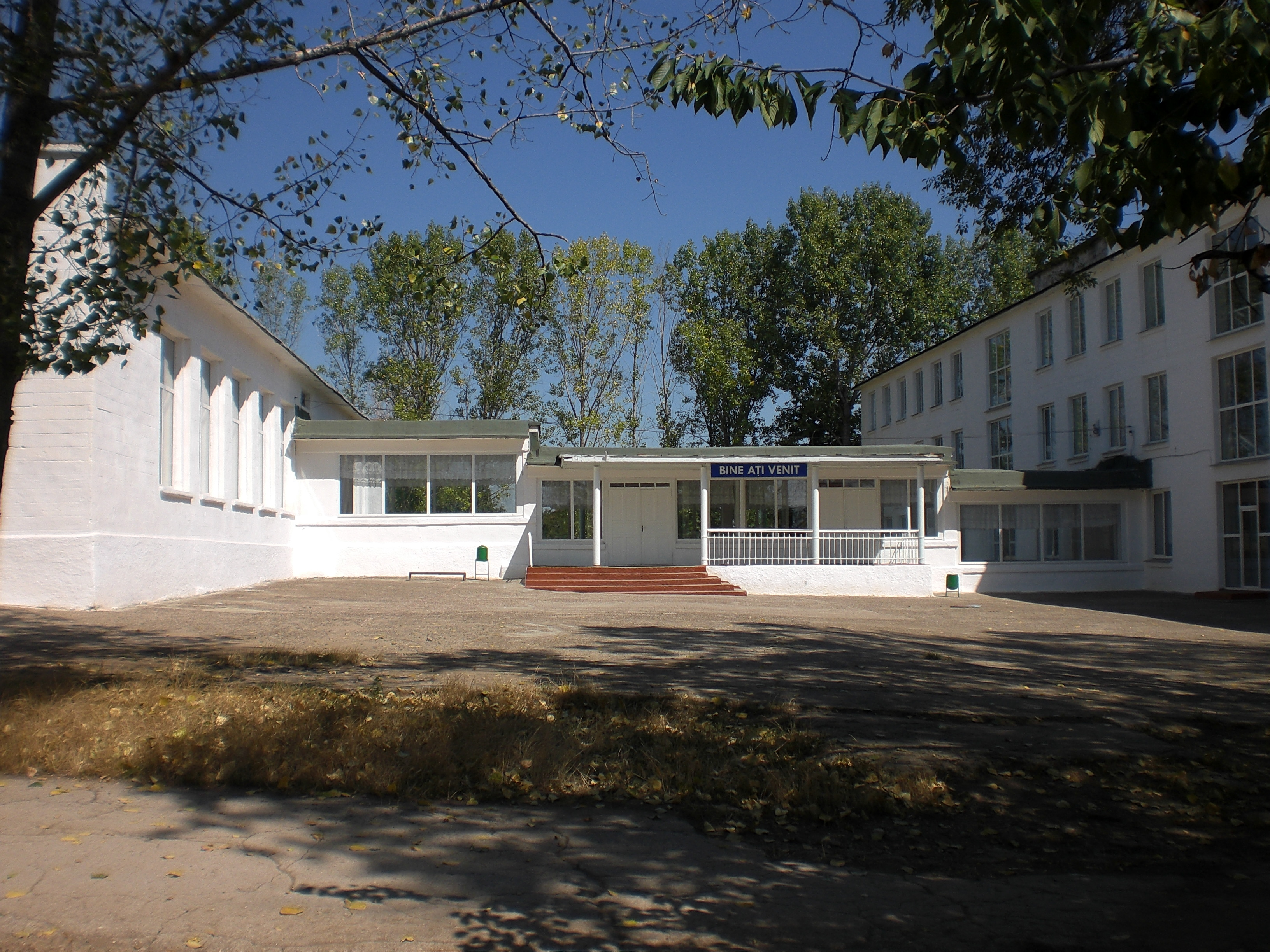 A picture of the school from Onitcani (Criuleni), Republic of Moldova. Right side.